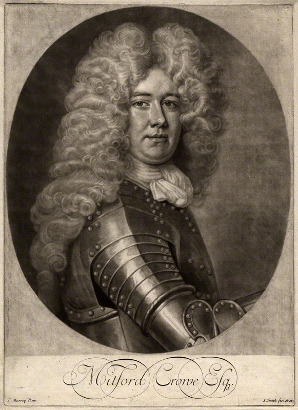 Portrait of Mitford Crowe (1669–1719), English politician and diplomat.